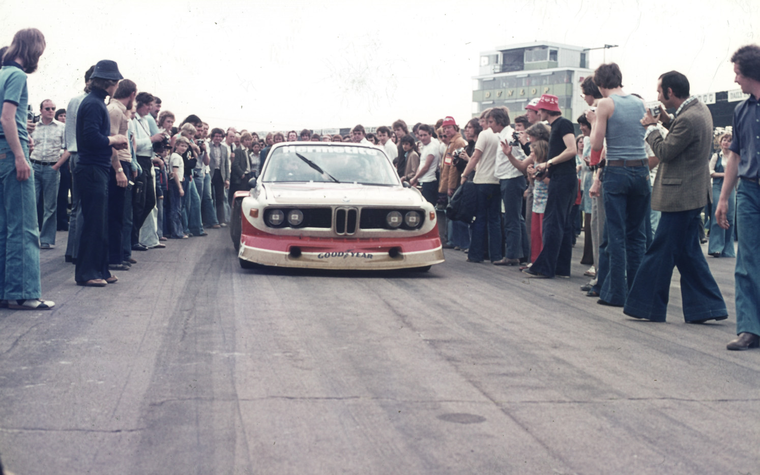 The winning BMW 3.5 CSL of John Fitzpatrick (GB) / Tom Walkinshaw (GB) at the Silverstone 6 Hours in the World Championship for Manufacturers 1976.